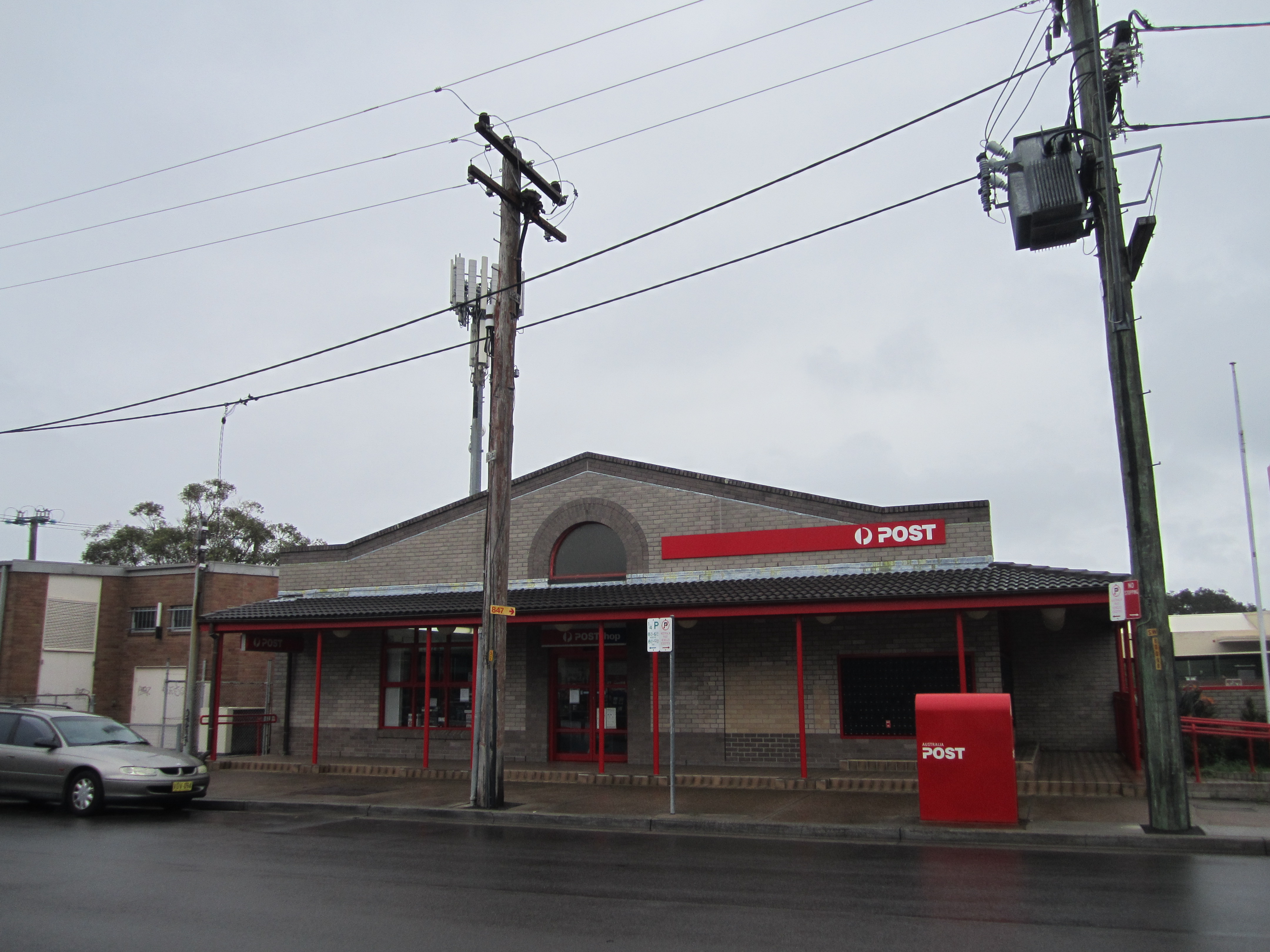 New Swansea post office. Rainy day. Next to telephone exchange.